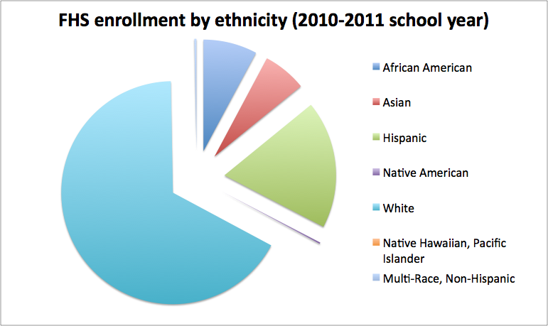 An "exploded" pie chart showing the races of students who enrolled at Framingham High School for the 2010-2011 school year